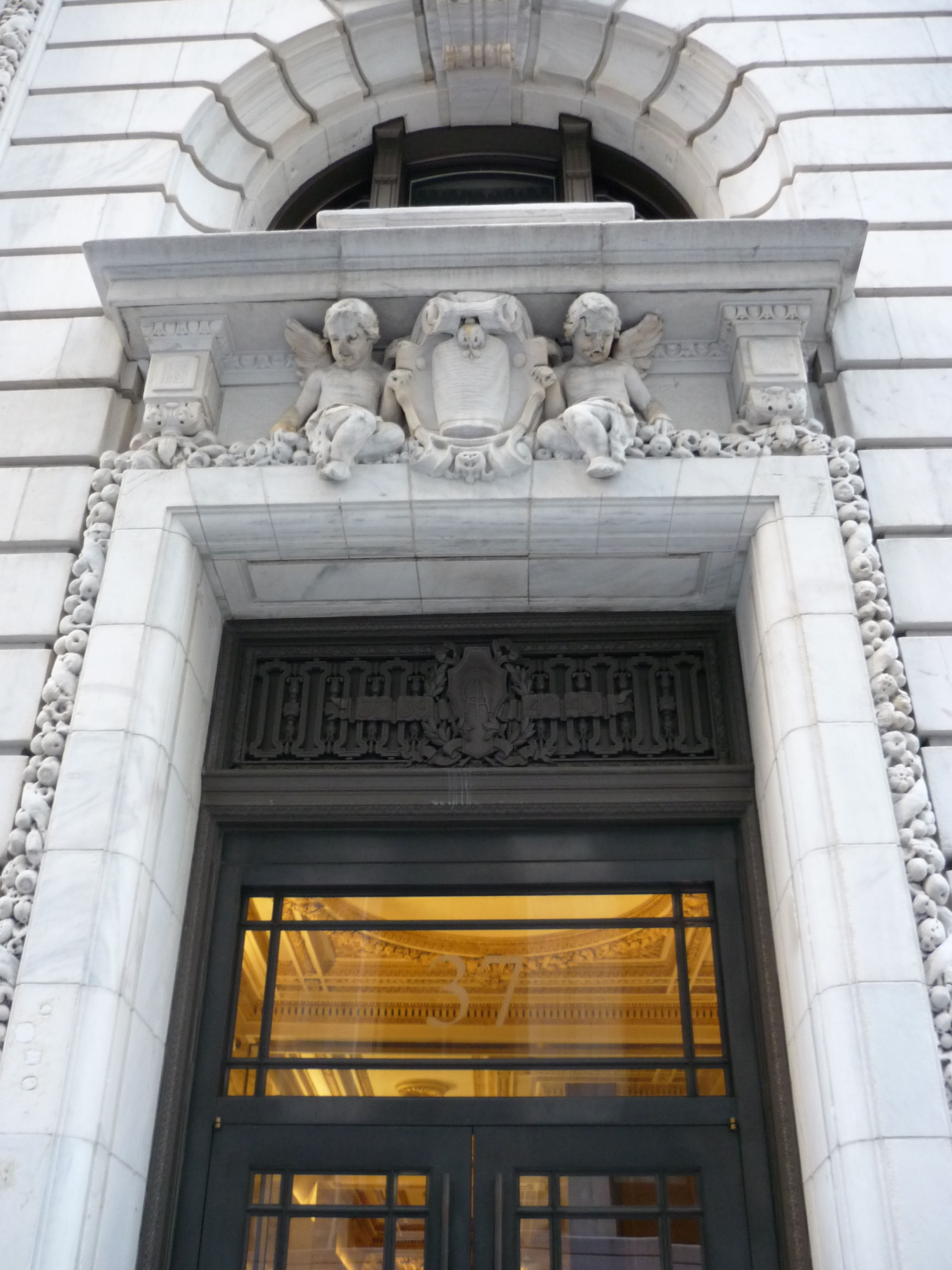 This photo is of Wikis Take Manhattan goal code H15, 37 Wall Street.